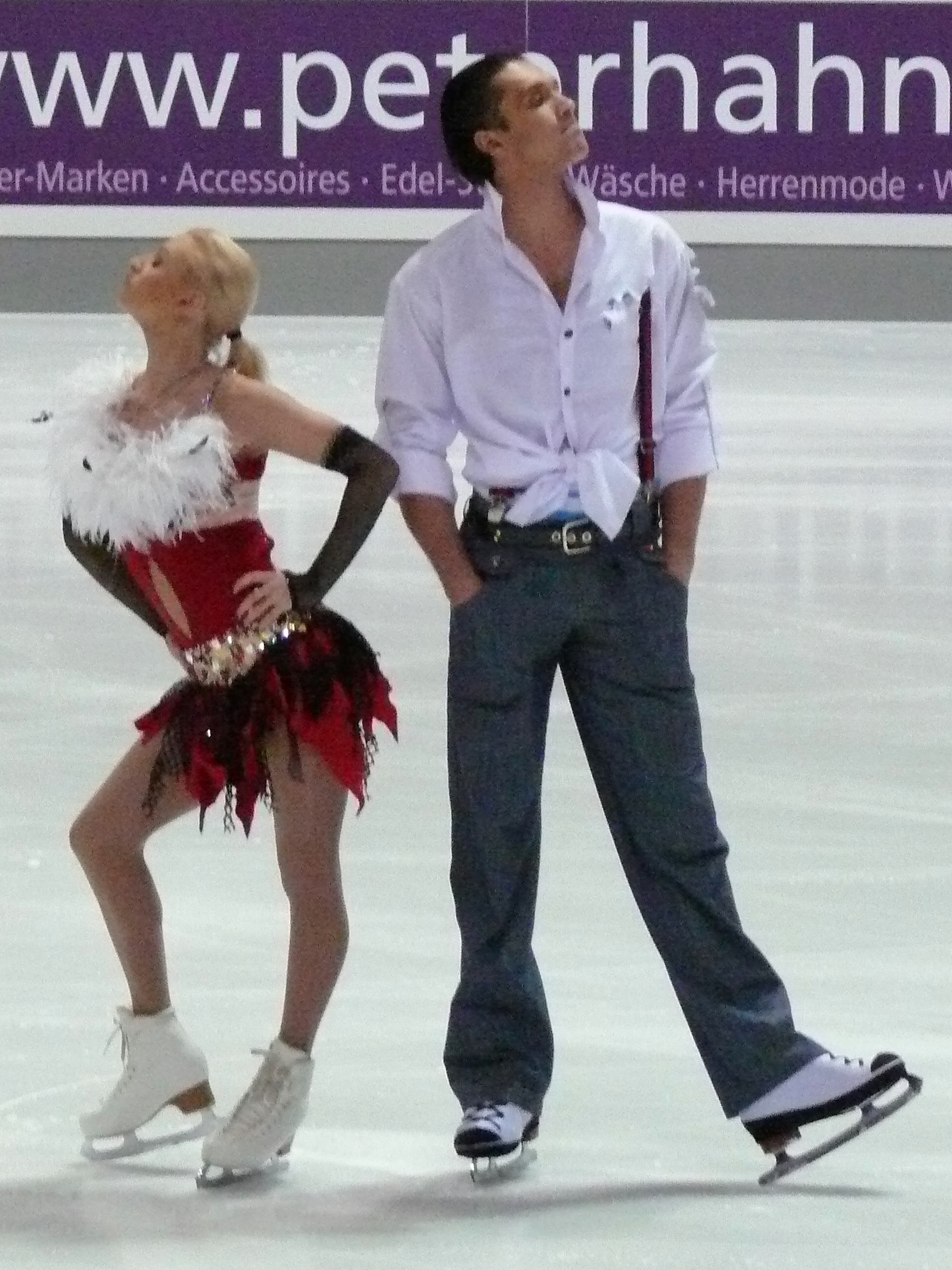 Maria Mukhortova and Maxim Trankov (RUS) at their free program at the Nebelhorntrophy in Oberstdorf, Germany